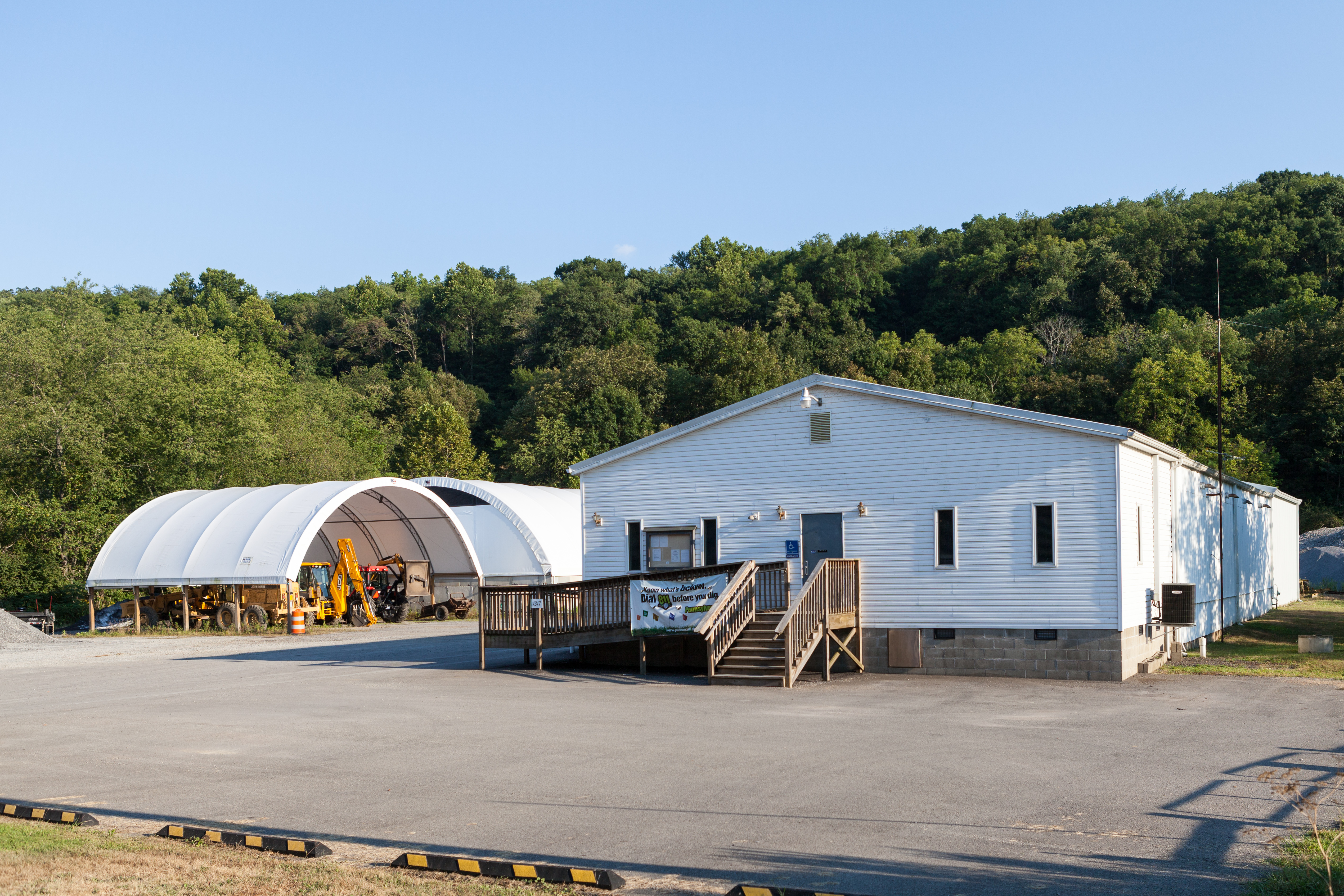 Morris Township Municipal Building at 1317 Browns Creek Road in Morris Township, Greene County, Pennsylvania.